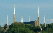 The Johannesburg South Africa Temple of The Church of Jesus Christ of Latter-day Saints as part of the Johannesburg skyline.